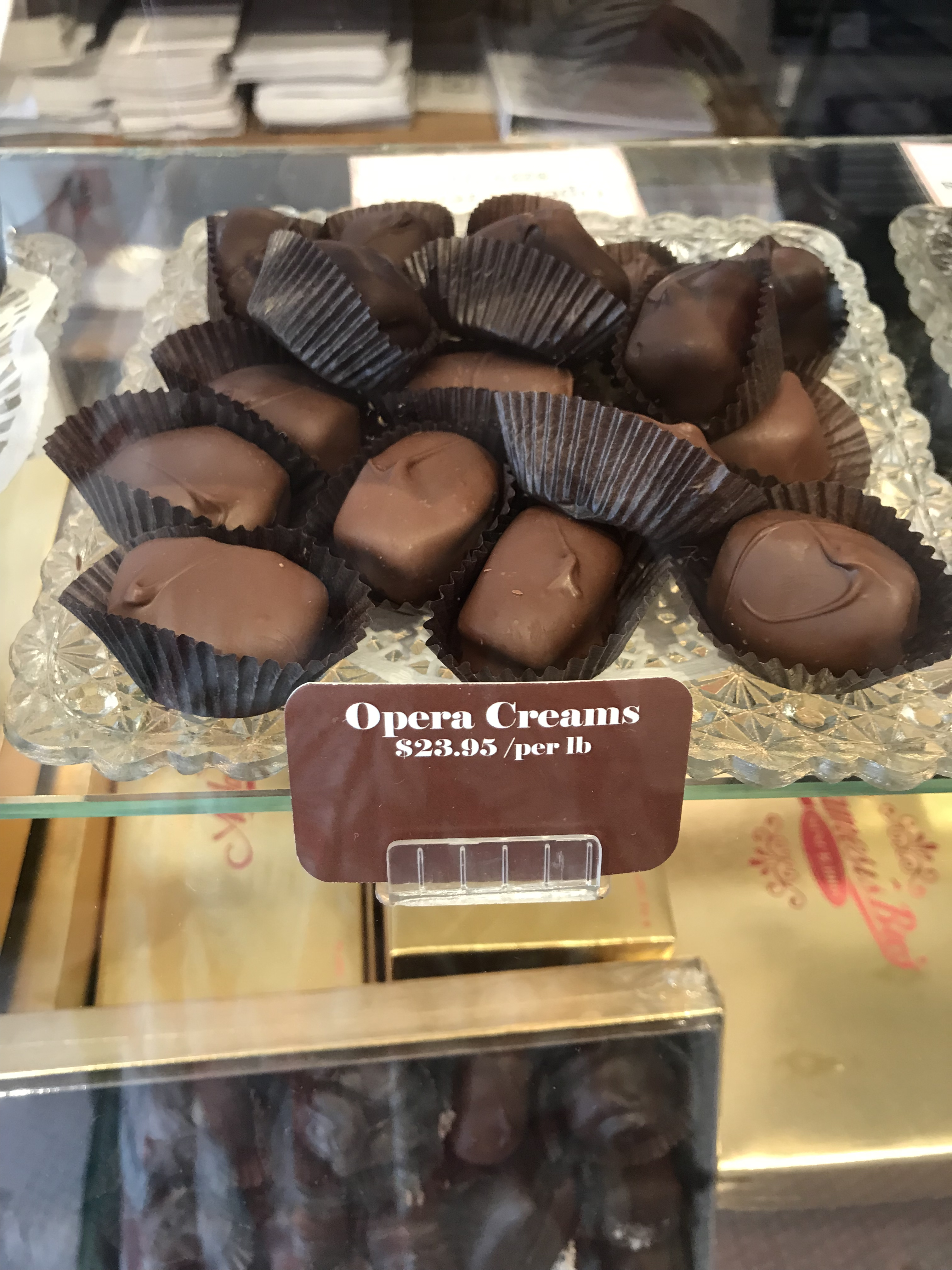 Opera creams sold at Aglamesis Bro's in Oakley, Cincinnati, Ohio